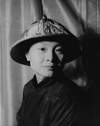 Portrait of Mai Mai Sze (Chinese-American writer and artist)